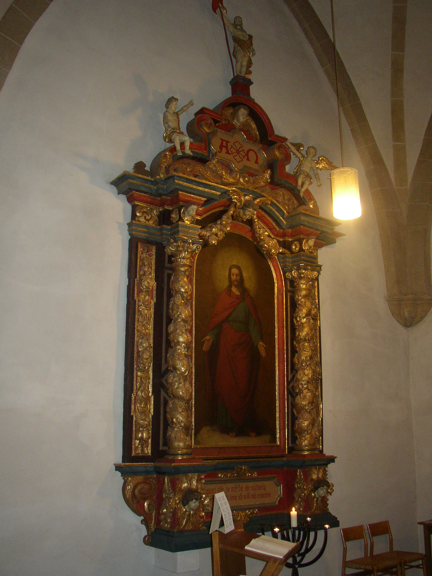 former altar piece in St. Johannes church in Halle (Westfalen), county of Gütersloh, Germany